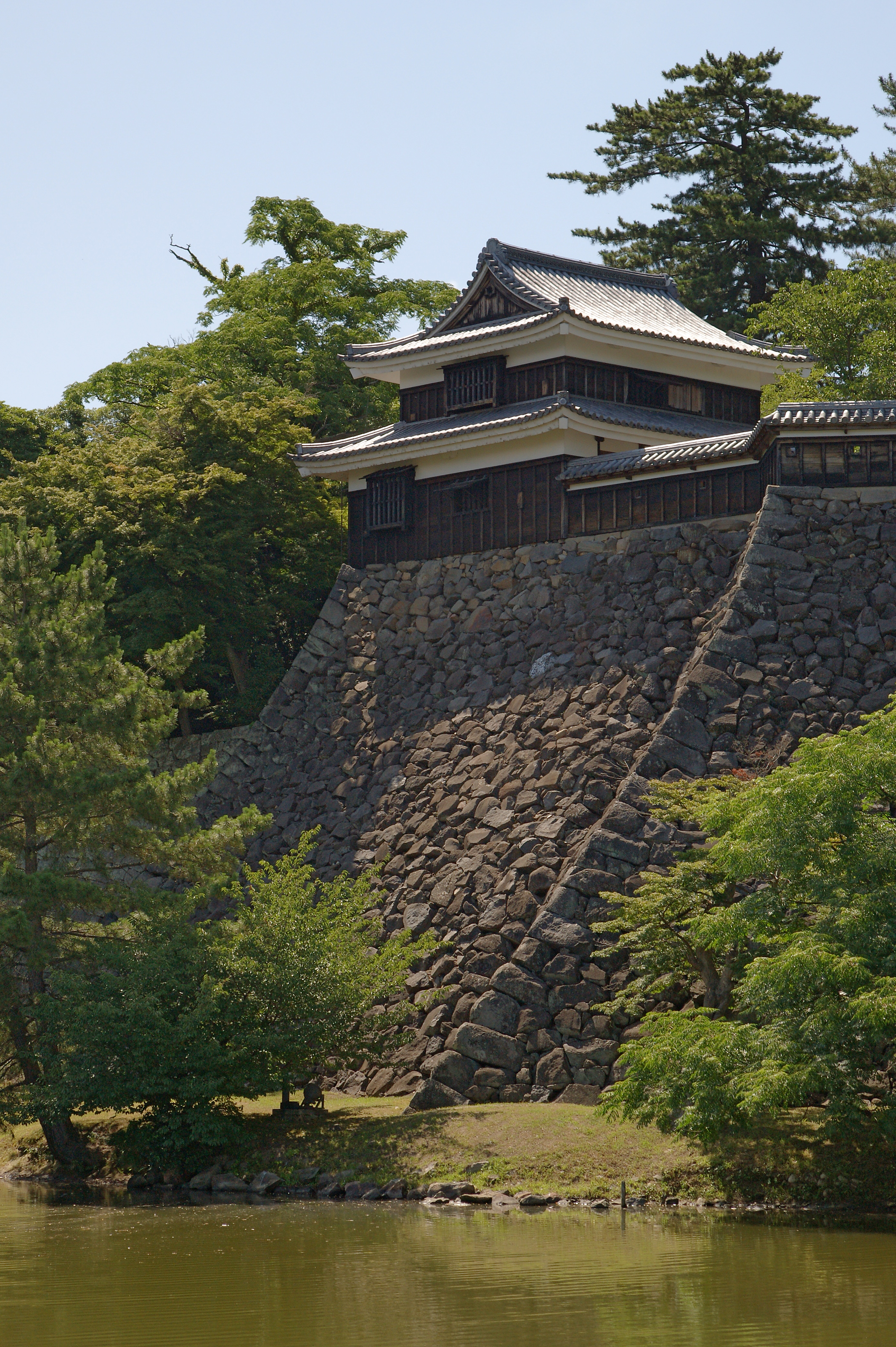 Matsue Castle in Matsue, Shimane prefecture, Japan